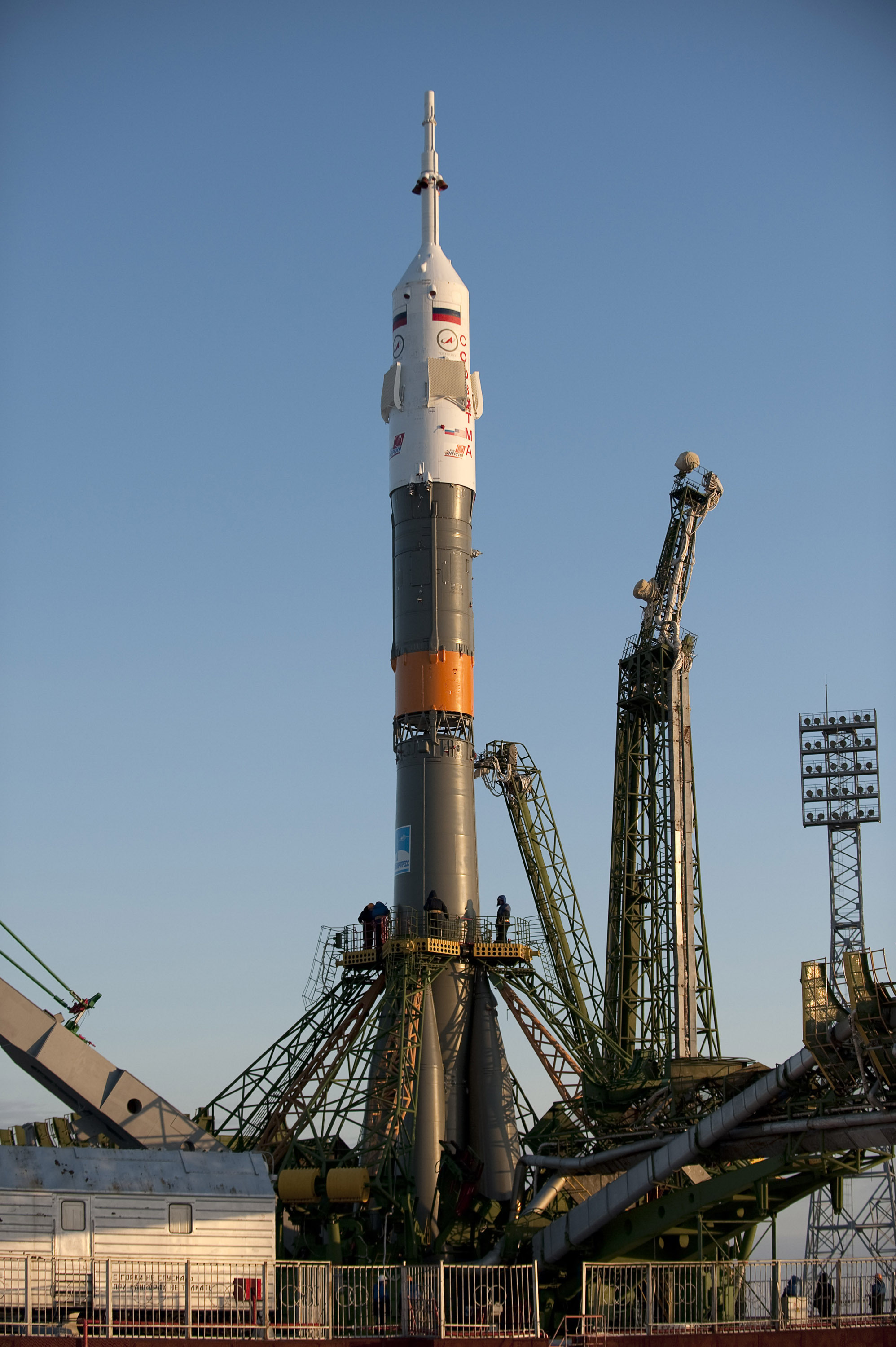 The Soyuz TMA-17 spacecraft is raised into vertical position at the launch pad of the Baikonur Cosmodrome, Kazakhstan, Friday, Dec. 18, 2009. The launch of the Soyuz spacecraft, with Expedition 22 NASA Flight Engineer Timothy J. Creamer of the United States, Soyuz Commander Oleg Kotov of Russia, and Flight Engineer Soichi Noguchi of Japan, is scheduled for Monday, Dec. 21, 2009, at 3:52 a.m. Kazakhstan time.